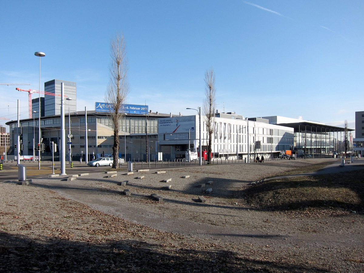 Hallenstadion in Zurich, Switzerland